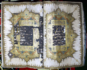 A volume of the Quran dated from 19th century from the Riau-Lingga Sultanate.